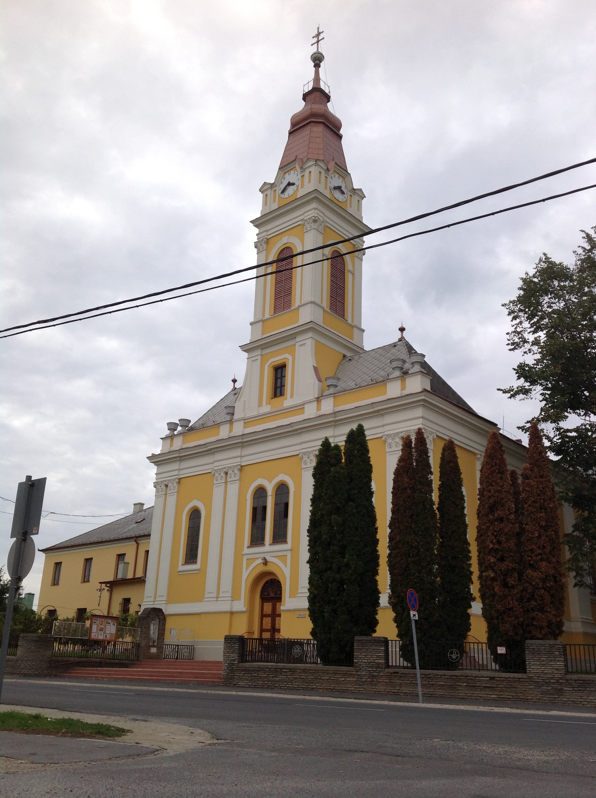 Roman catholic church of Kiskanizsa.